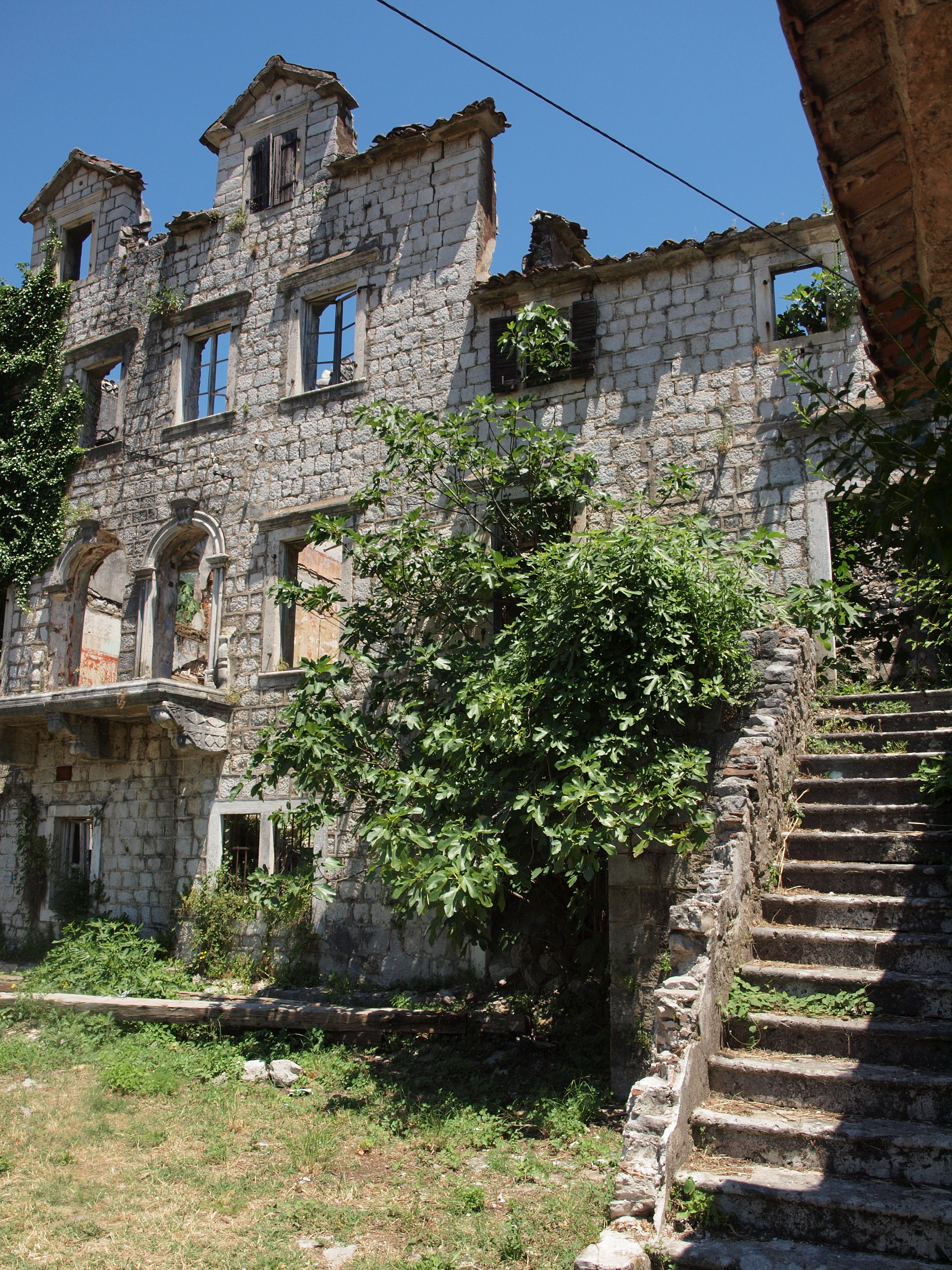 Venetian palato, Risan